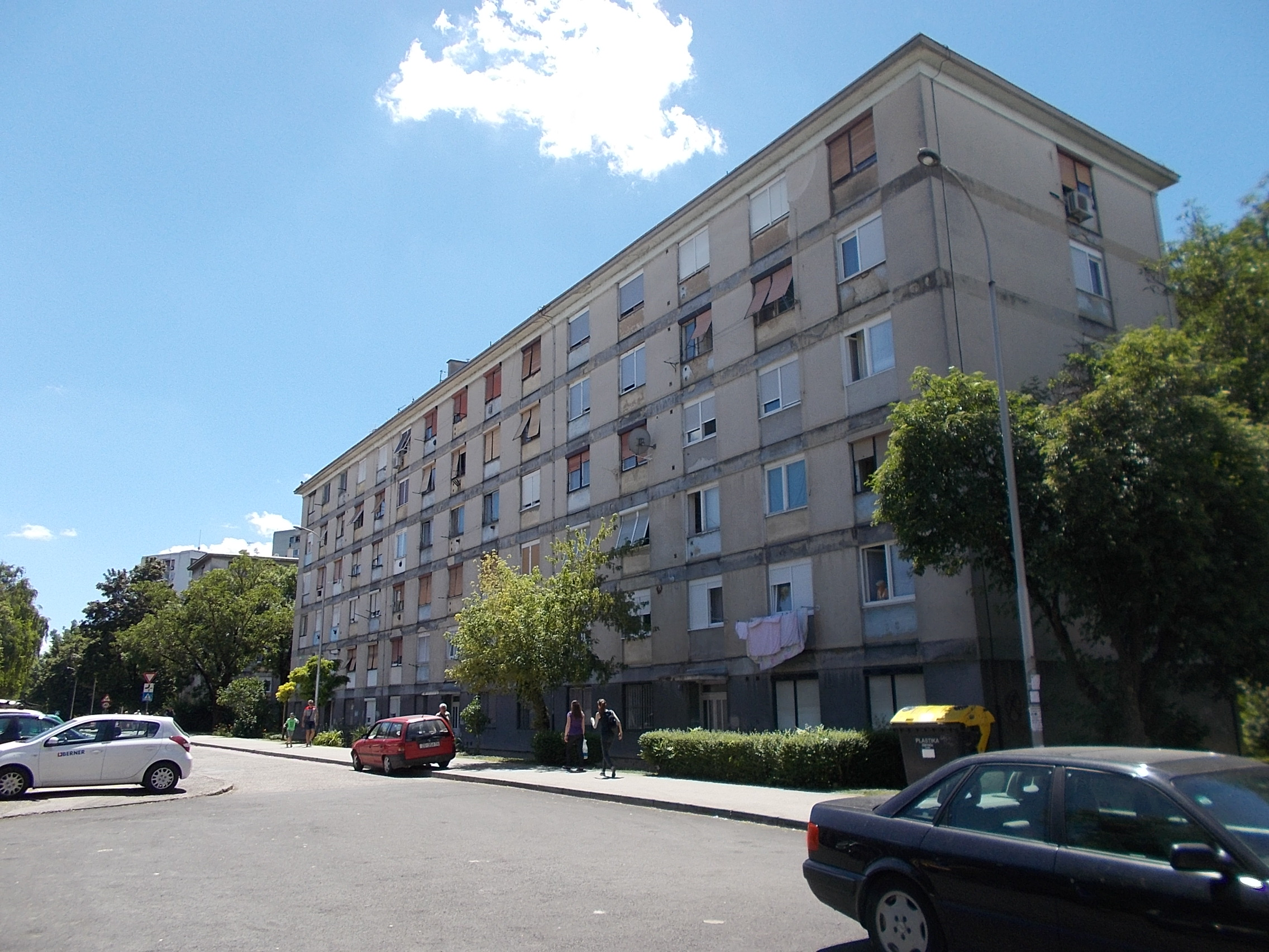 Residental buildings in Trnsko, Novi Zagreb.